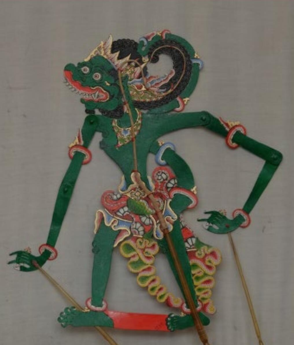 Wayang - figure for shadow theatre, Java, Indonesia